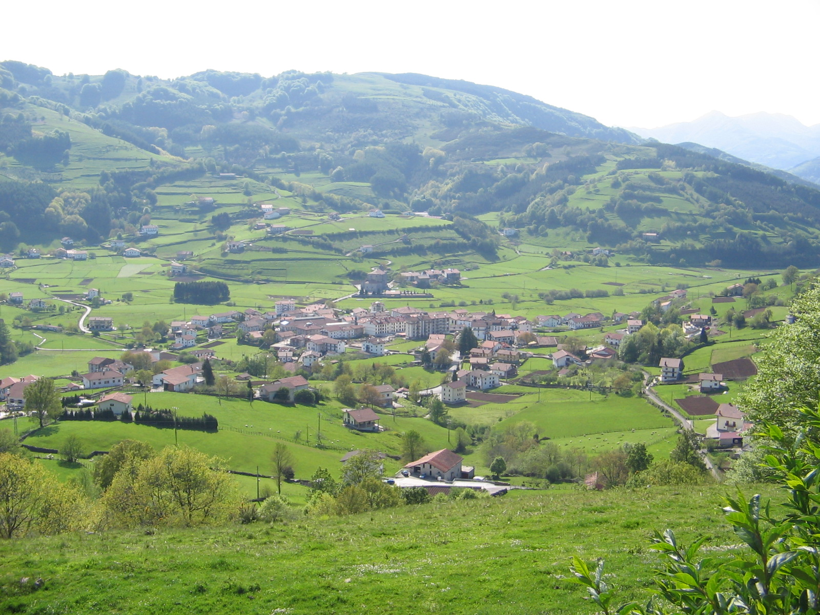 View to the W of Berastegi in Gipuzkoa